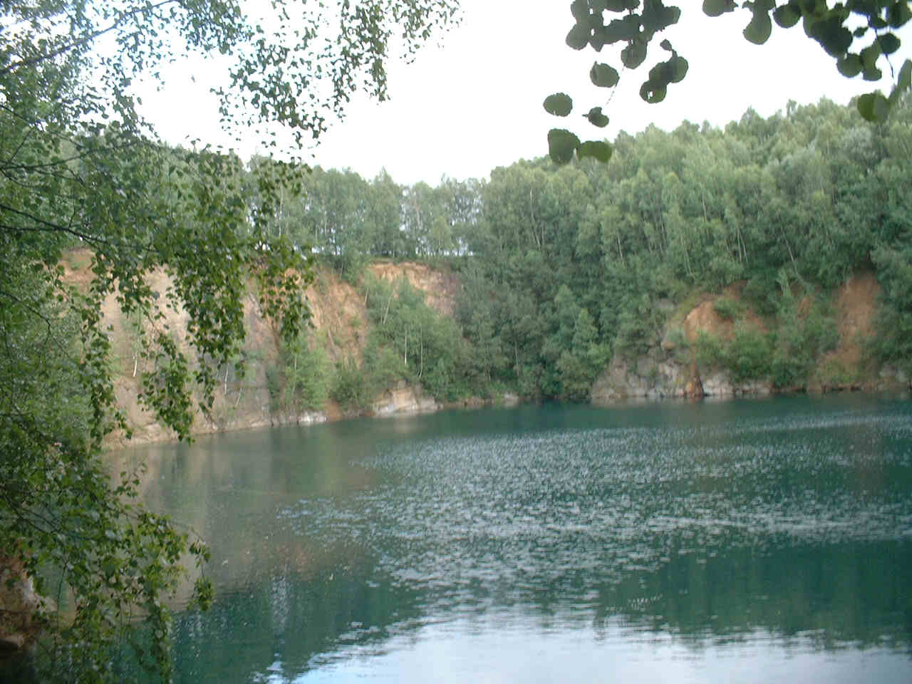 Quarry in Troebigau